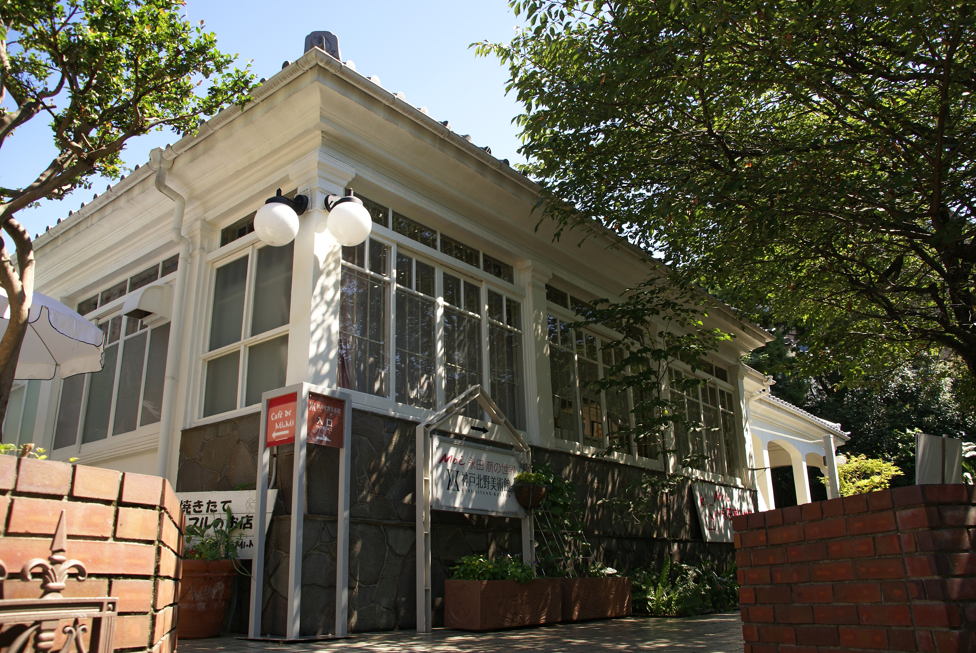 Kobe Kitano Museum (Old American Consulate) in Kobe, Japan